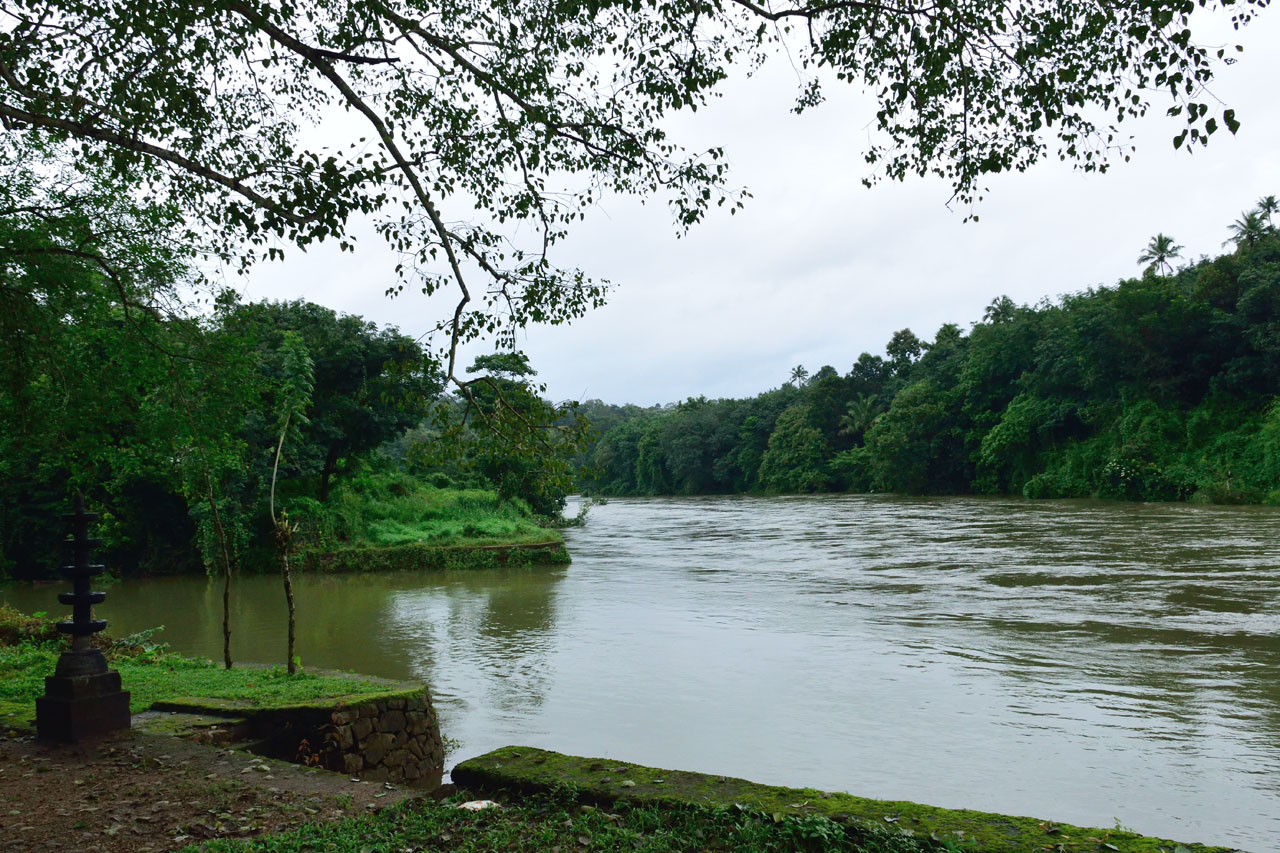 River Manimala near Manimala town